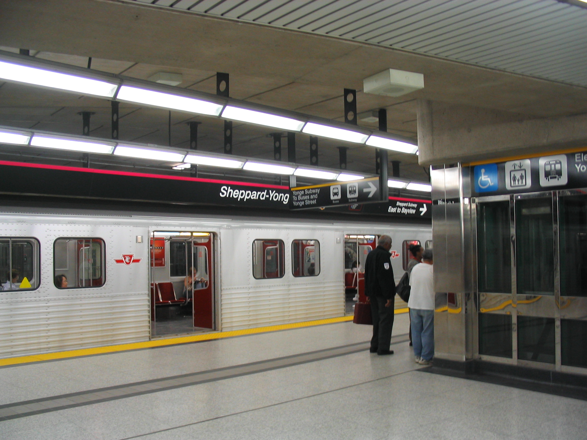 Subway stations Sheppard-Yonge, Toronto